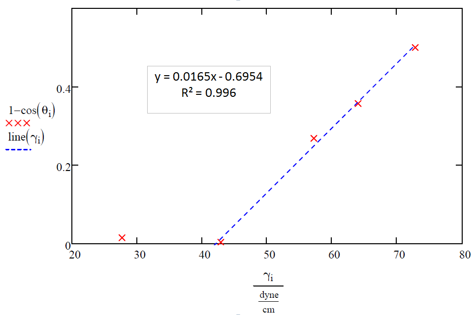 4 point and final regression for Zisman Plot of polycarbonate